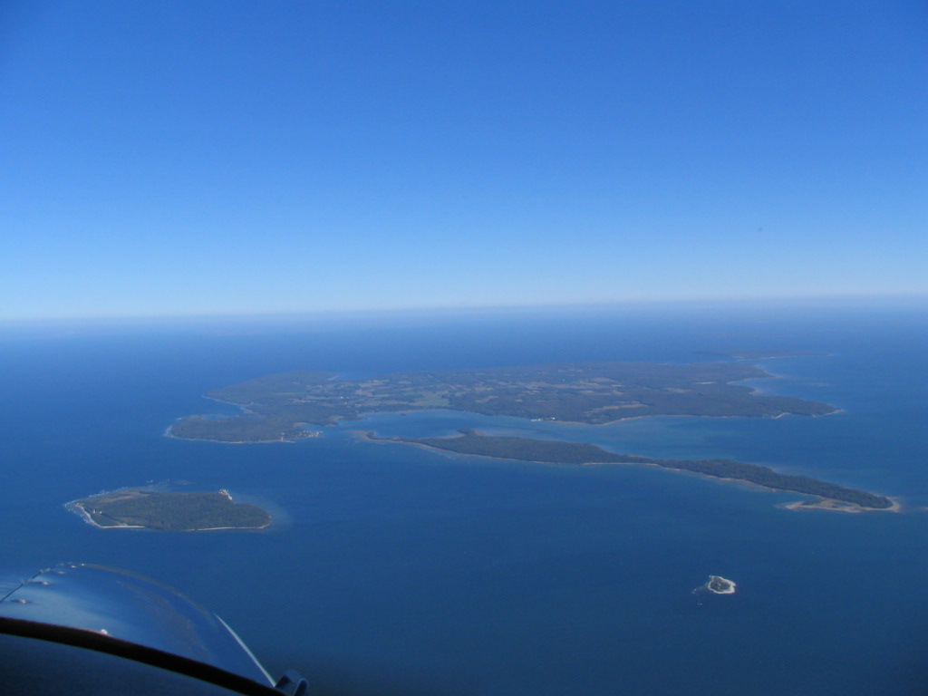 Plum Island (left), Pilot Island (lower right), Detroit Island (middle center and right), and southern Washington Island (in distance), Wisconsin